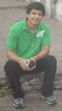 vinod singh at vaishno devi